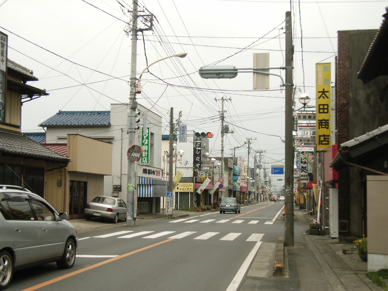 Today's Kurihashi-shuku in Kurihashi City, Saitama Prefecture, Japan